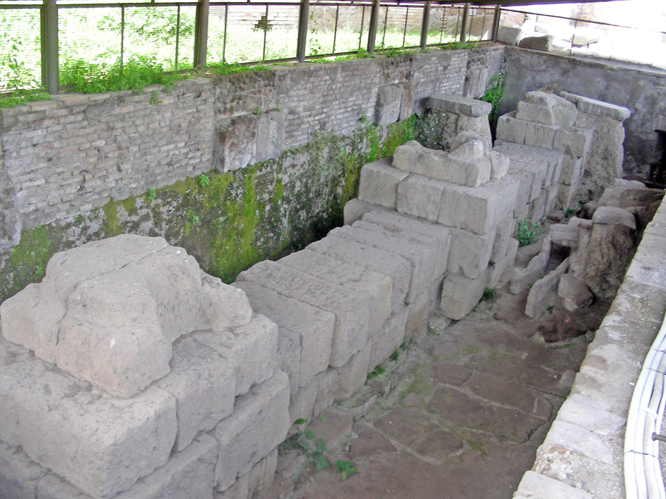 West side of the Basilica Aemilia in the Roman Forum, remains of the republican phase